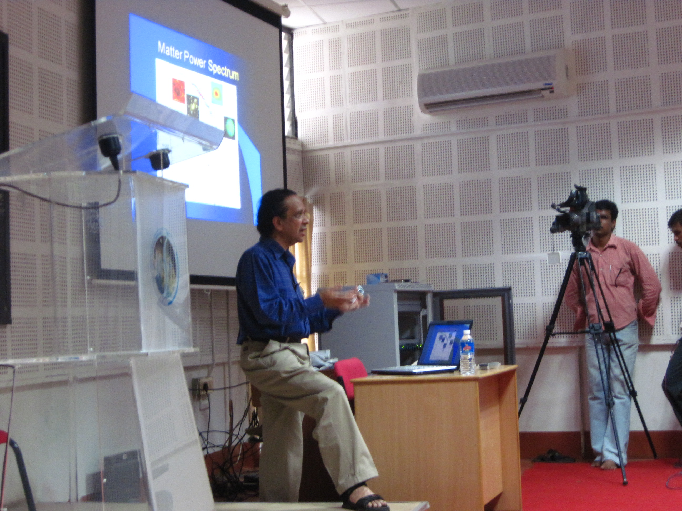 He is well renowned astrophysicist of India.